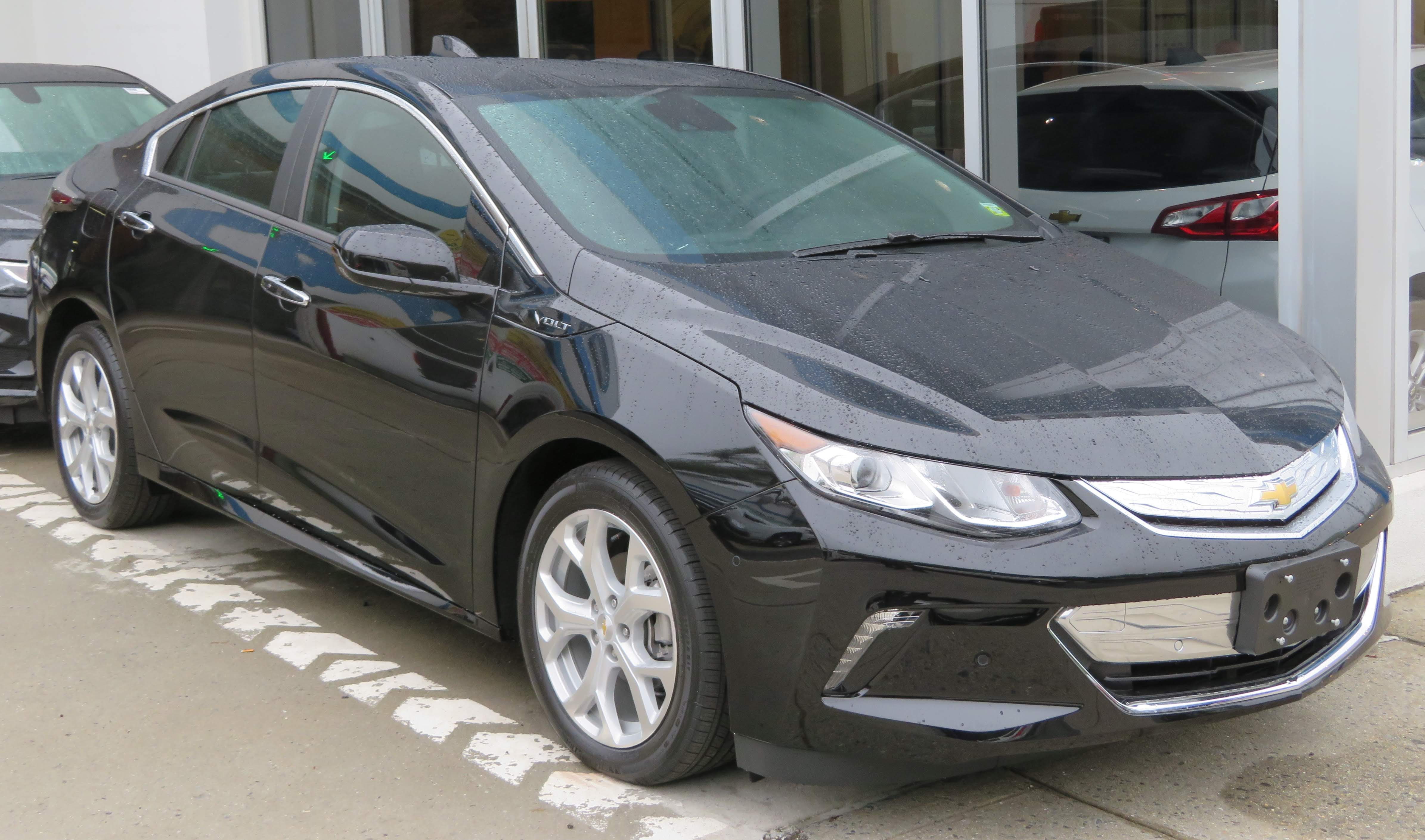 Photographed at Chevrolet Dealer, Little Neck, New York